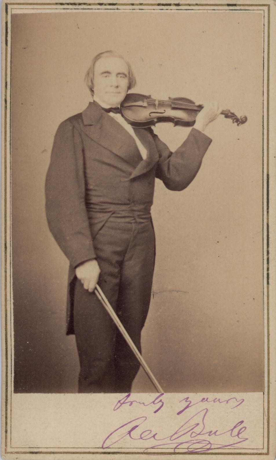 Artist: Brady's National Portrait Gallery Date/place: 1868, New York Subject: Ole Bull Medium: photographic positive, B&W Notes: written on back; "This autograph of Ole Bull was obtained in Bergen Norway Aug 10th 1868 by Prof. J. J. Watson while on a visit to the great Artist. The photograph from life was taken in New York in Dec. 1868". Original signature by Ole Bull. Persistent URL: [#// Original belongs to the Ole Bull Collection at Bergen Public Library]